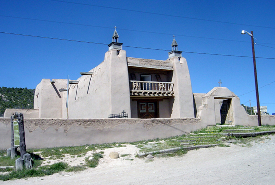 Photo taken by Bobak Ha'Eri. May 2005. Please obey license and cite for use outside of Wikipedia.